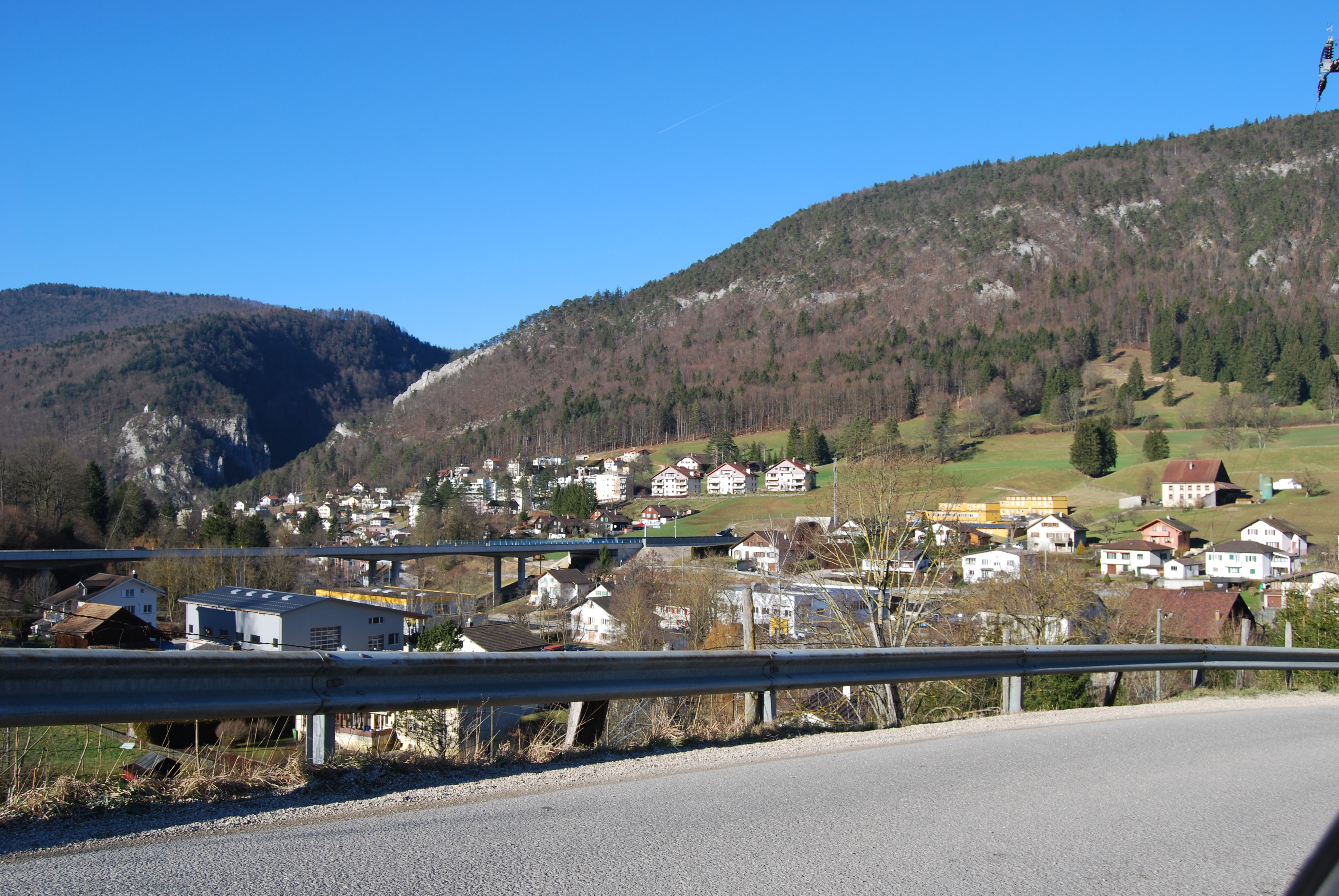 View from Eschert to Moutier and the bridge of the Swiss Highway A16, canton of Bern, Switzerland